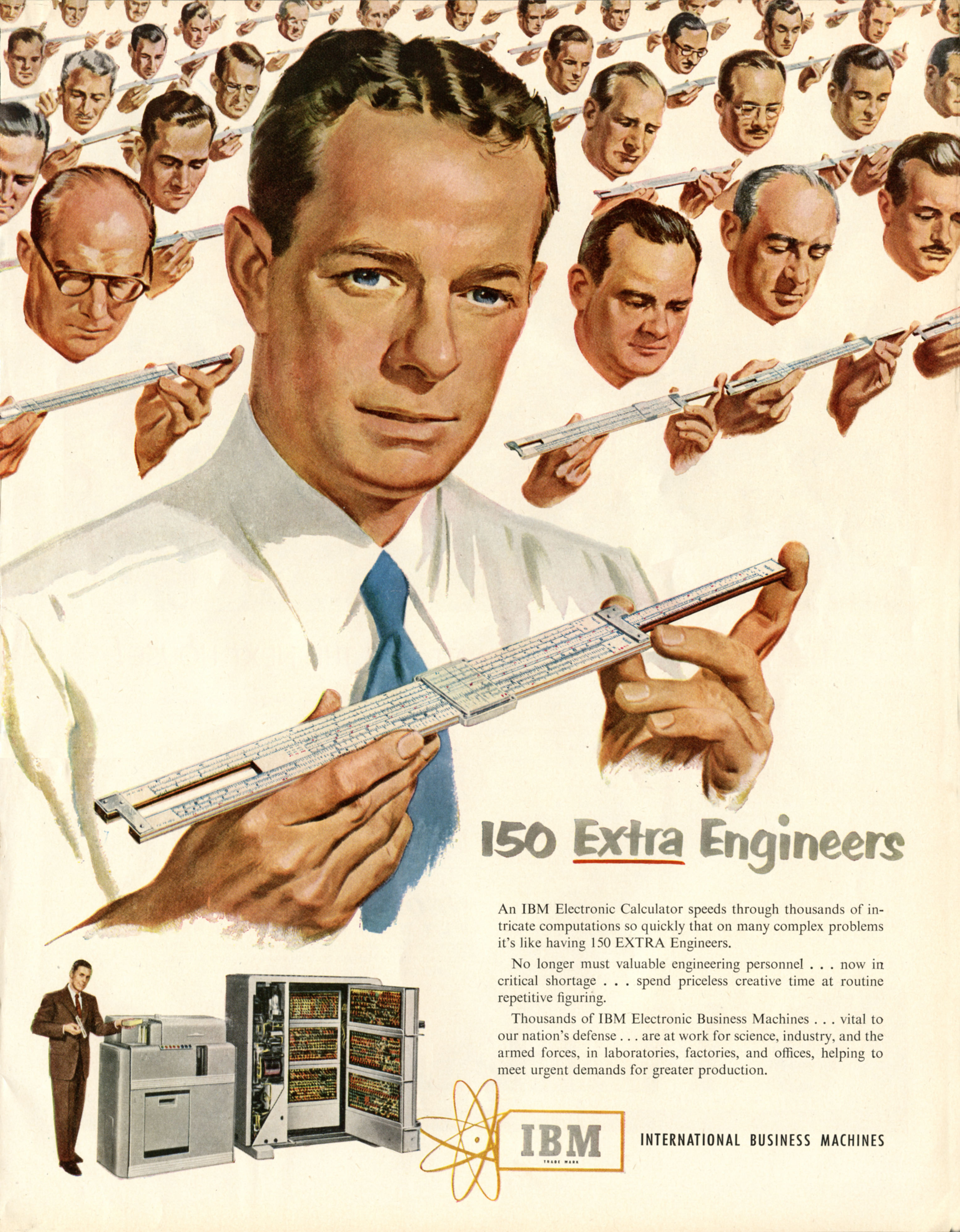 A December 1951 advertisement for the IBM 604 Electronic Calculating Punch that was first produced in 1948. The machine could be programed to do addition, subtraction, multiplication and division. The input and output were done with punch cards. The advertisement claims the IBM 604 can do the work of 150 engineers with slide rules.[1] Fortune magazine, volume 44 number 6, December 1951, page 55. This 10.25 by 13 inch (26 by 33 cm) magazine has 232 pages. This advertisement was created by Cecile & Presbrey; the agency began working with Computing-Tabulating-Recording Co. (which in 1924 became IBM Corp.) in 1914.